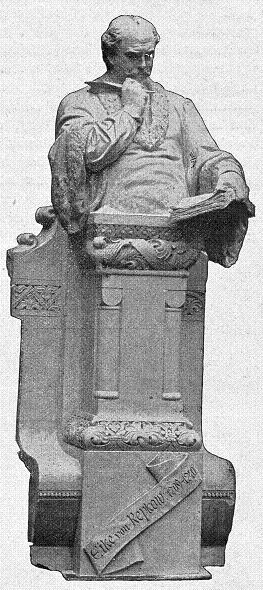 Eike von Repgow, author of the Sachsenspiegel. Bust beside the monument commemorating Margrave Albrecht II. of Brandenburg, in the former Siegesallee in Berlin. Sculptor: Johannes Boese. The sculpture was unveiled on 22 March 1898. At present the statue is stored in the Lapidarium in Berlin-Kreuzberg.